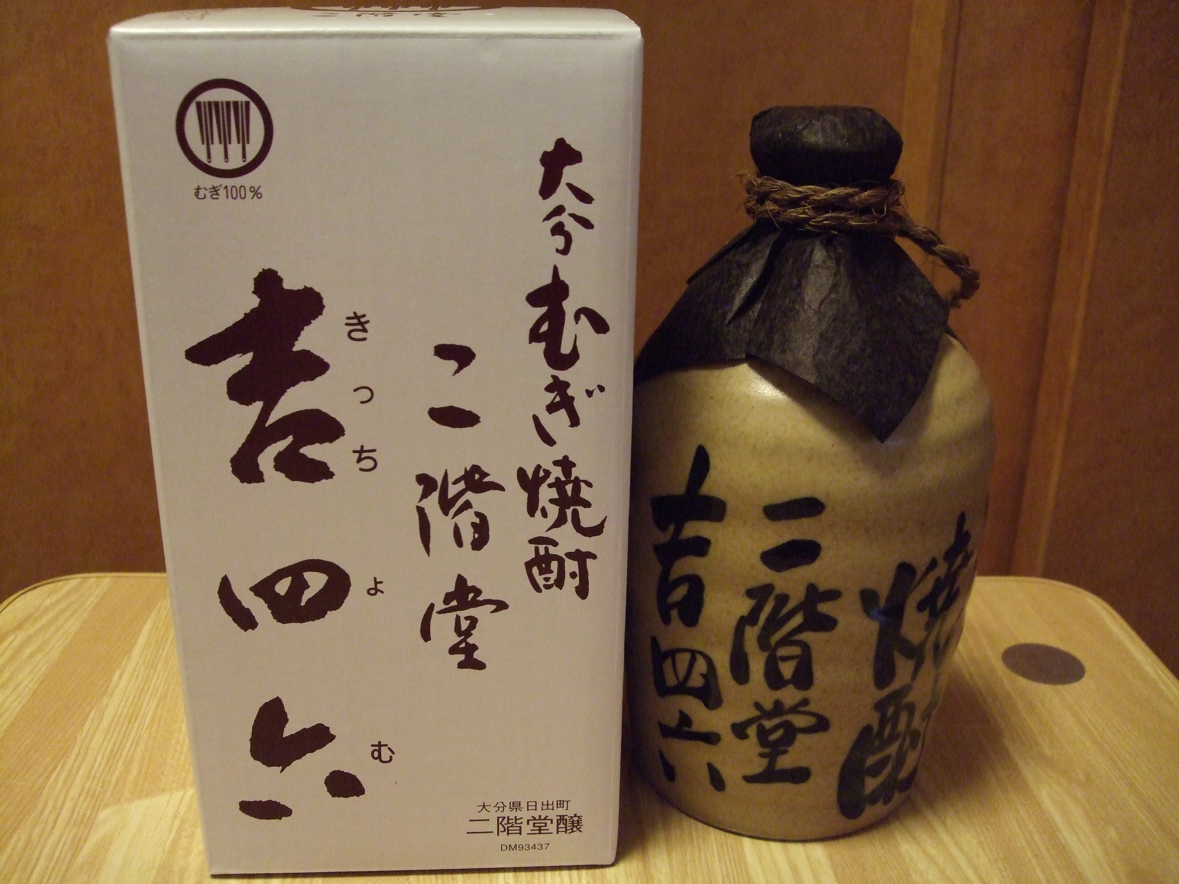 Nikaidō Brewery, located in Ōita Prefecture, is famous its shōchu or rice wine products.